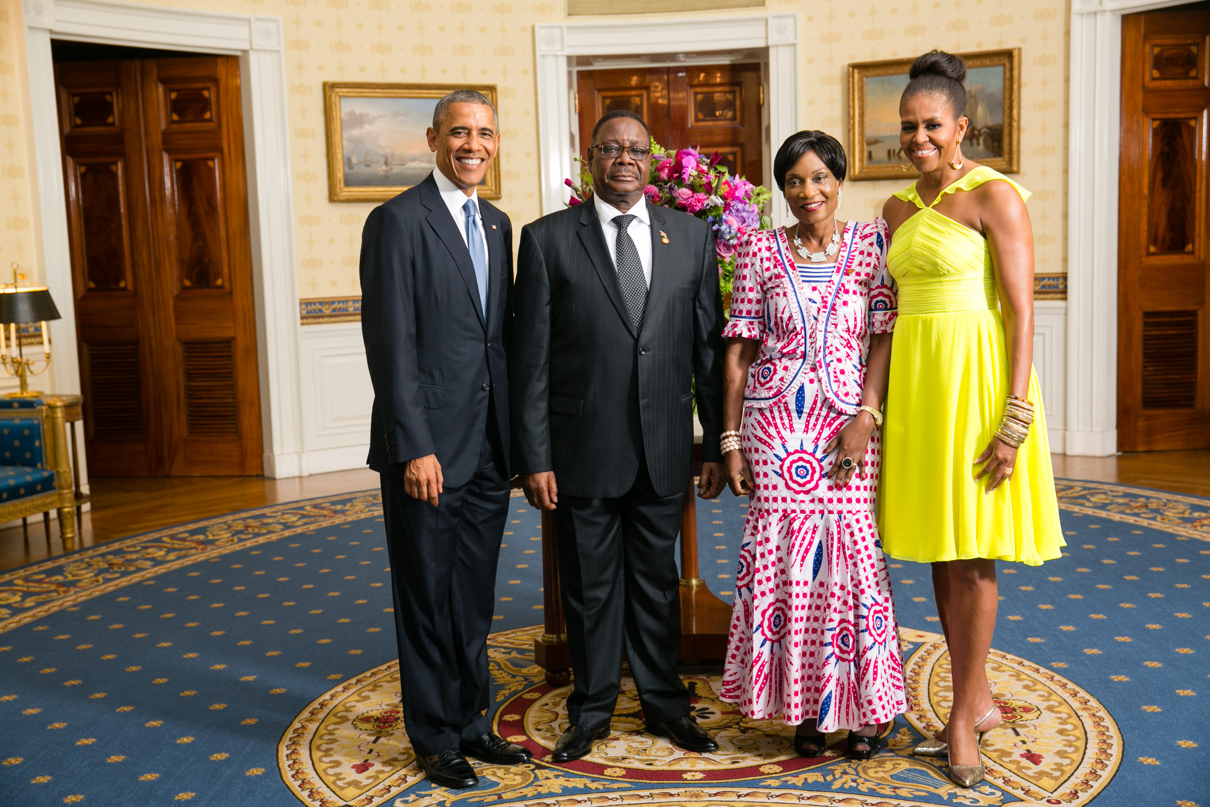 President Barack Obama and First Lady Michelle Obama greet His Excellency Arthur Peter Mutharika, President of the Republic of Malawi, and Mrs. Gertrude Hendrina Mutharika, in the Blue Room during a U.S.-Africa Leaders Summit dinner at the White House, Aug. 5, 2014. [Official White House Photo by Amanda Lucidon/ This official White House photograph is in the public domain from a copyright perspective, so while restrictions such as personality or privacy rights may apply, in general, manipulations are allowed.]